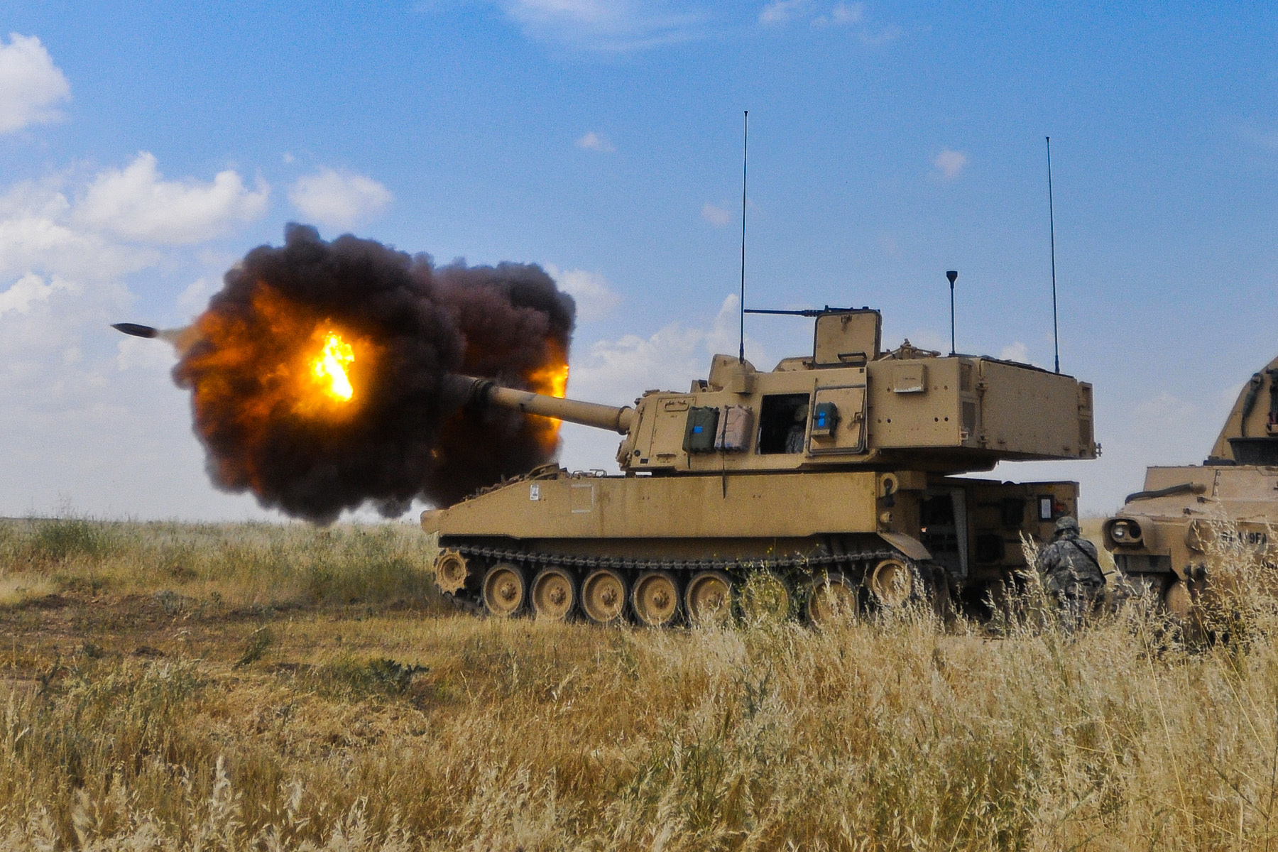 The earth shakes as an M109A6 Paladin fires a gas propelled 155mm Howitzer round through the enormous canon, the biggest of Battle Kings arsenal as 1-9 Field Artillery, 2nd Heavy Brigade Combat Team, 3rd Infantry Division, conducts their gun calibration at Destiny Range in Mosul, Iraq, April 23